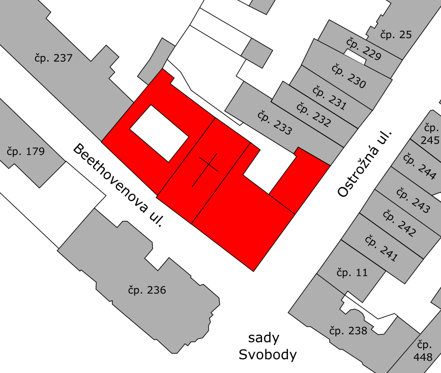 Current situation of the former franciscan monastery with the st. Barbara church in Opava (CZE).